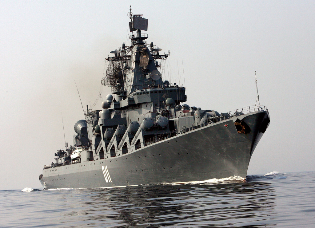 “Russia will celebrate Pacific Fleet Day on May 21. The Guards guided-missile cruiser Varyag underway at sea”. Russia will celebrate Pacific Fleet Day on May 21. The Guards guided-missile cruiser Varyag underway at sea.